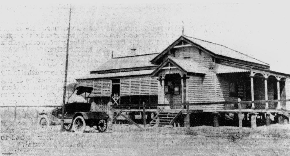 Exterior view of the post office at Burketown, 1920 Exterior view of the post office at Burketown. The entrance and verandahs are featured in this image. A vehicle is parked in front of the building.